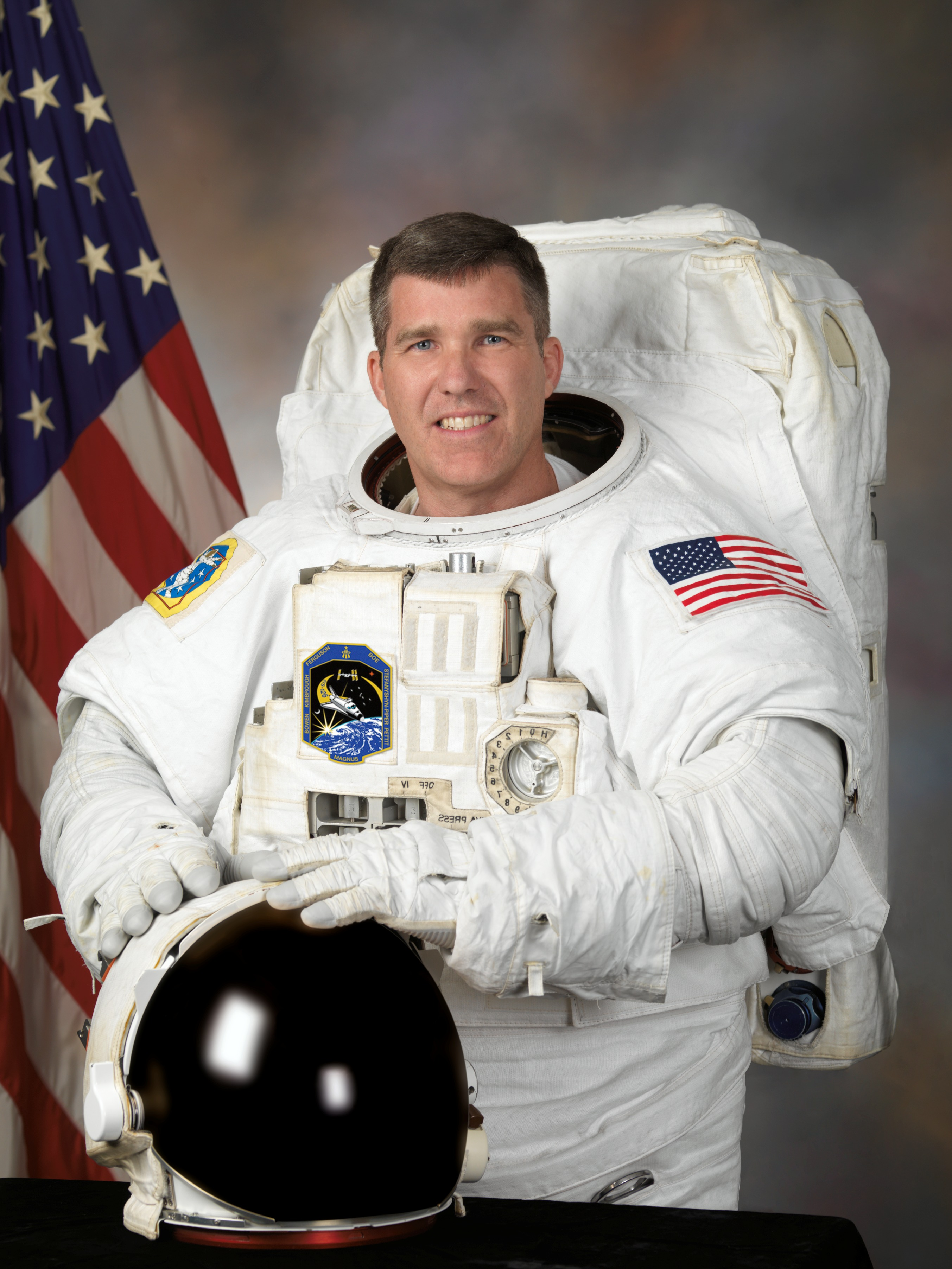 Official portrait image of NASA astronaut Stephen G. Bowen